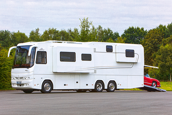 VARIO Perfect 1200 SH on MB Actros 2543 LLL. 3 axles, 3 slide outs, 12 m, 12 wheels, 25 t, 428 hp. Mercedes-Benz SL Roadster on board. The Golden "Auto Bild" motorhome 2016.